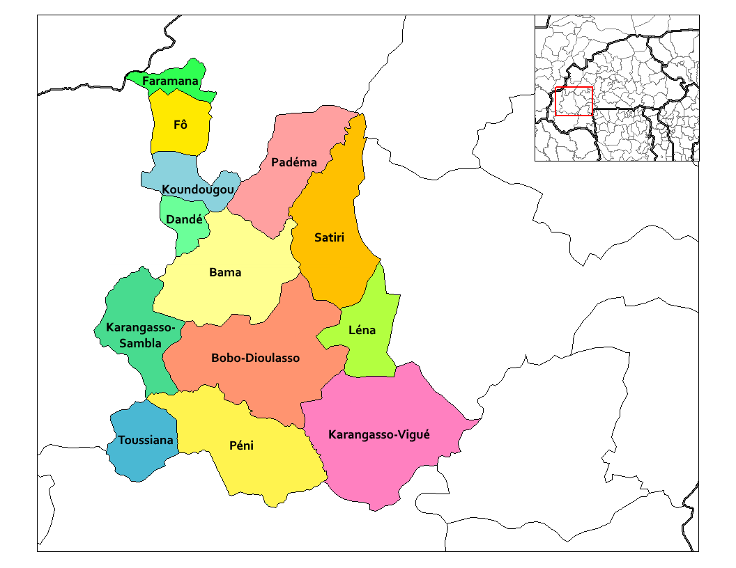 This map has been uploaded by Osiris fancy from to enable the Wikimedia Atlas of the World. Original uploader to was Rarelibra. Osiris fancy is not the creator of this map. Licensing information is below. Map of the departments of Houet province in Burkina Faso. Created by Rarelibra 03:20, 30 September 2006 (UTC) for public domain use, using MapInfo Professional v8.5 and various mapping resources.